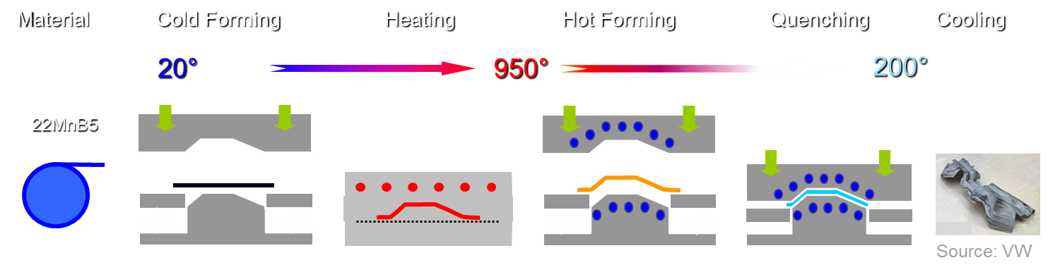 Sketch of the indirect hot forming process, created in PPT and converted later to png format